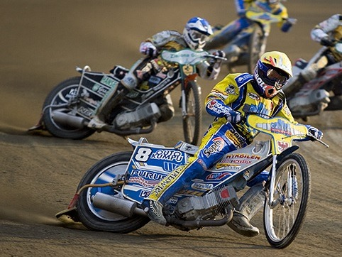 Rune Holta before participation in the competition